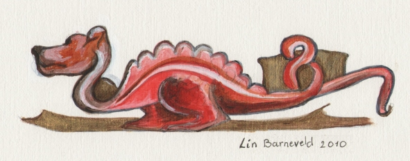 Copy of the drollery on the first page of the Prologue of The Clerk's Tale in the Ellesmere Chaucer. Acrylic painting by Lin Barneveld (2010).